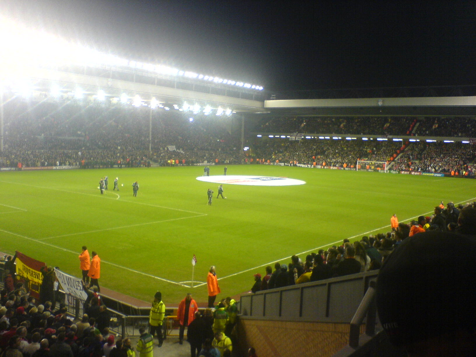 Anfield Road, Liverpool. January 2007 vs Arsenal in FA-cup